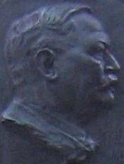 Portrait of Fritz von Wille on his gravestone at Kerpen Castle in the Eifel in Kerpen, Rhineland-Palatinate (Germany)